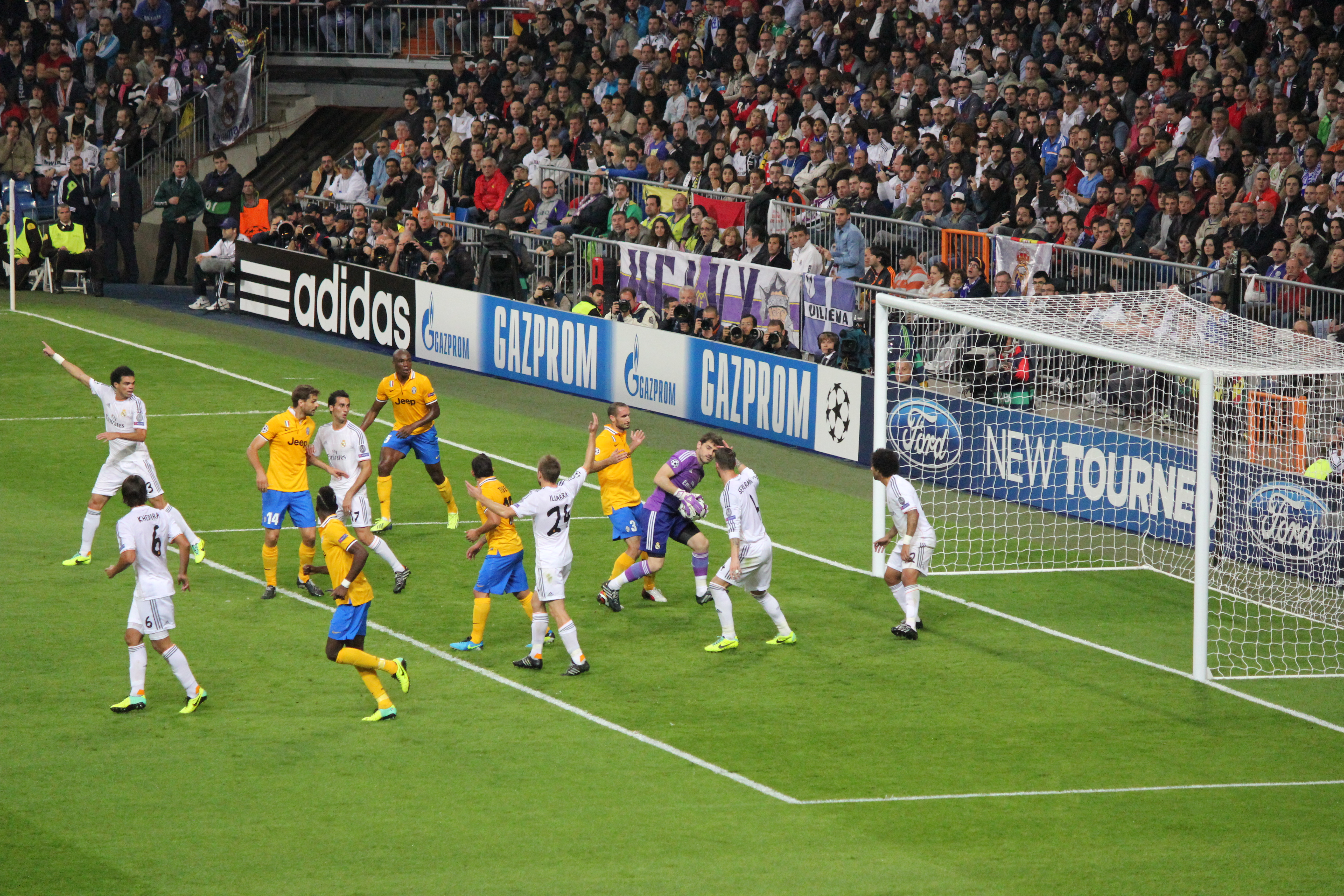 Real Madrid vs Juventus, 24 October 2013 Champions League